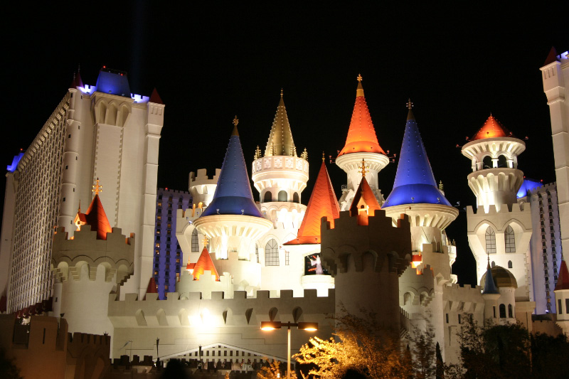 Excalibur Hotel and Casino in Las Vegas, Nevada.